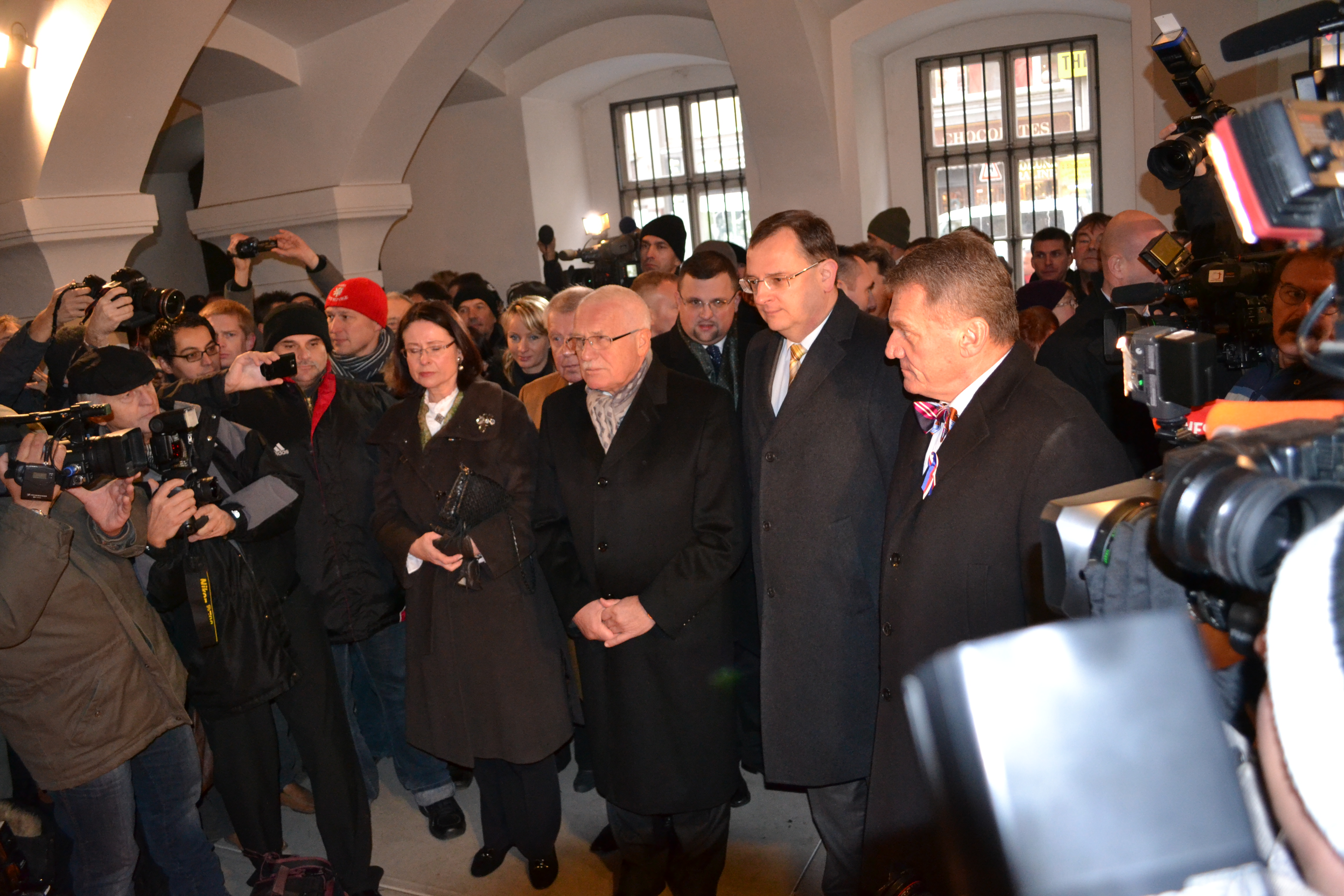 from left: Miroslava Němcová (Chairperson of the Parliament), Václav Klaus (President), Petr Nečas (Prime Minister), Bohuslav Svoboda (Mayor of Prague) at Velvet Revolution memorial event in 2011